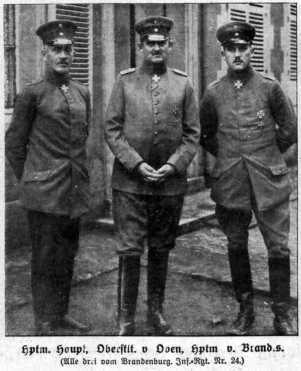 German Captain Hans-Joachim Haupt, Lieutenant-Colonel von Oven, Captain Cordt von Brandis (WW1). All three were awarded the Pour le Mérite.